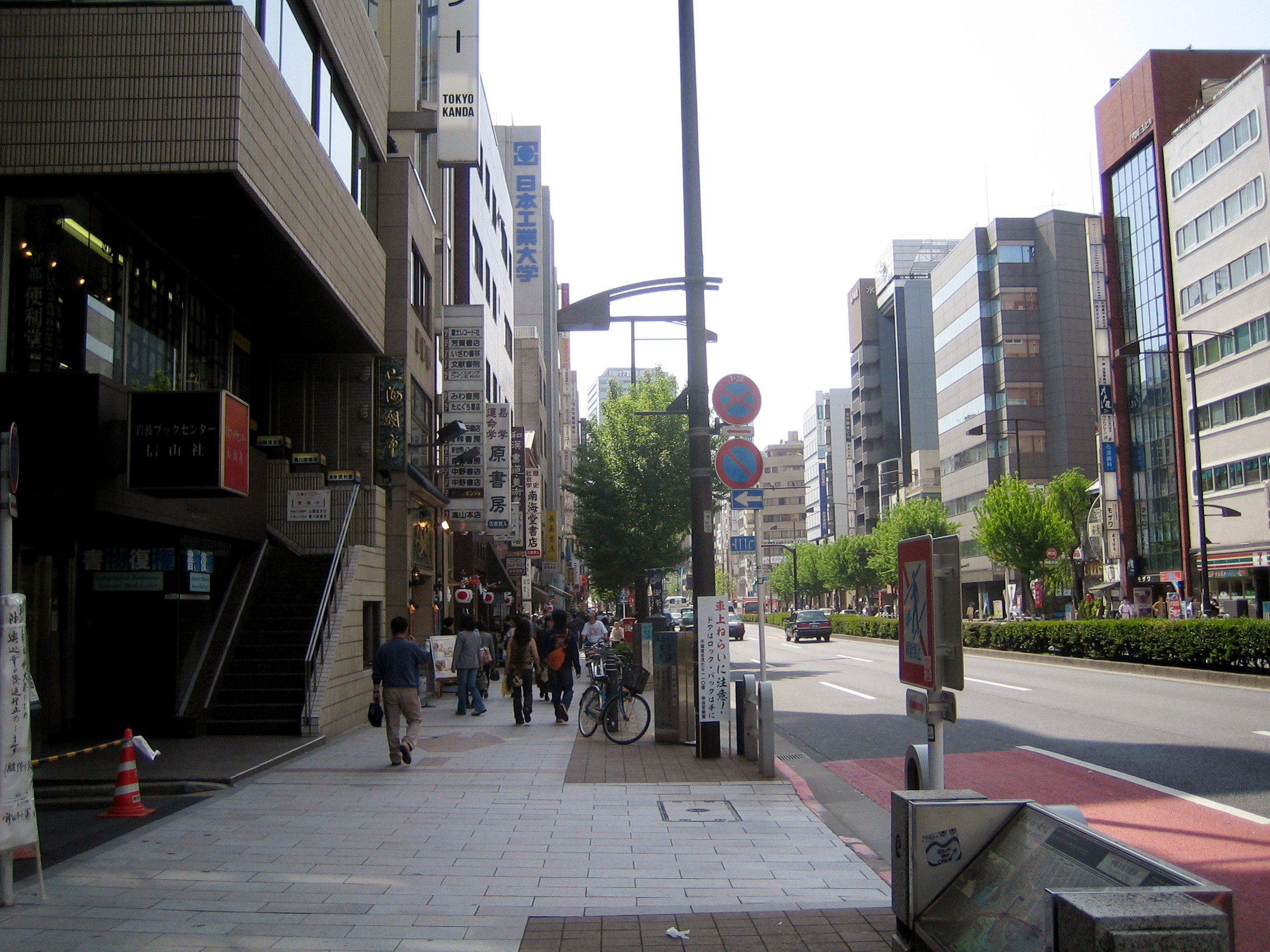 神田古書店街。東京都千代田区神田神保町 Secondhand bookstores district of Kanda (神田古書店街 Kanda Koshotengai), at Kanda-Jinbocho (神田神保町 Kanda-Jinbōchō), Chiyoda, Tokyo, Japan